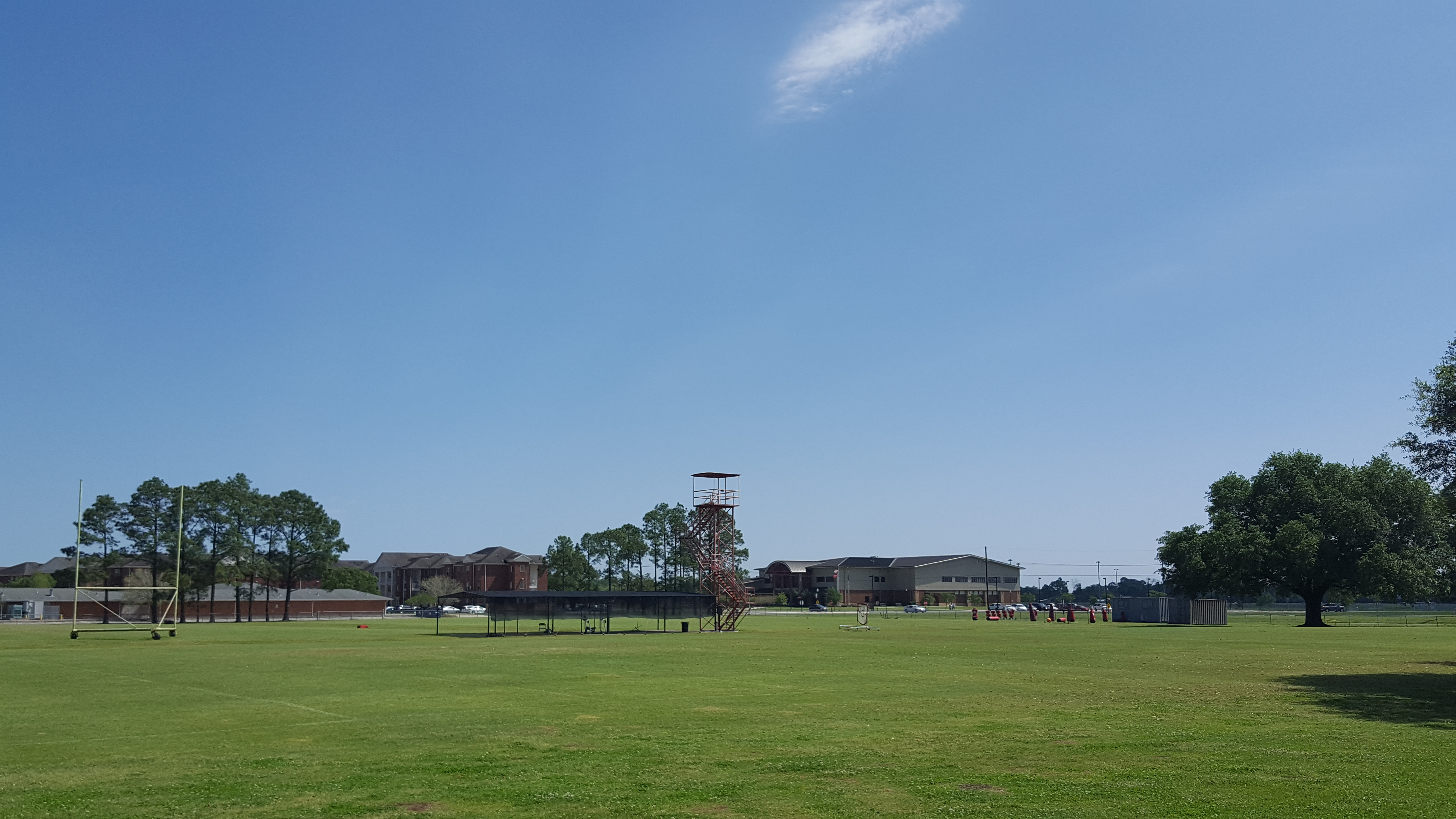 Nicholls St. Football Practice Fields-Barker Ath Bldg view (Thibodaux, Louisiana)